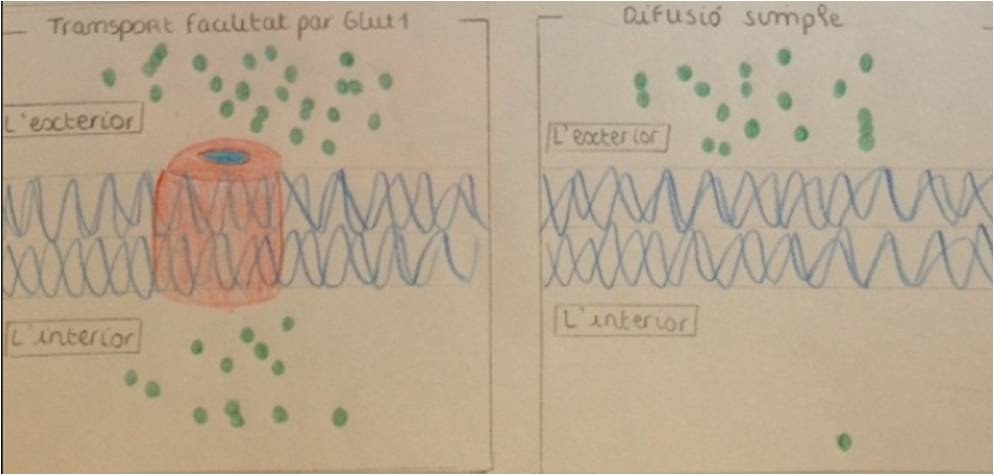 ejoej